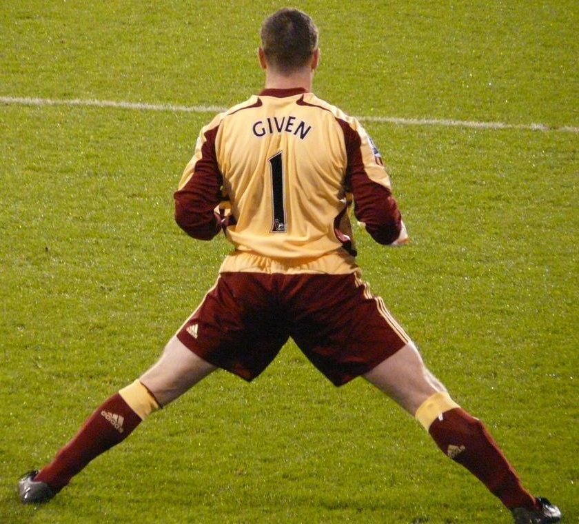 Irish football (soccer) player Shay Given